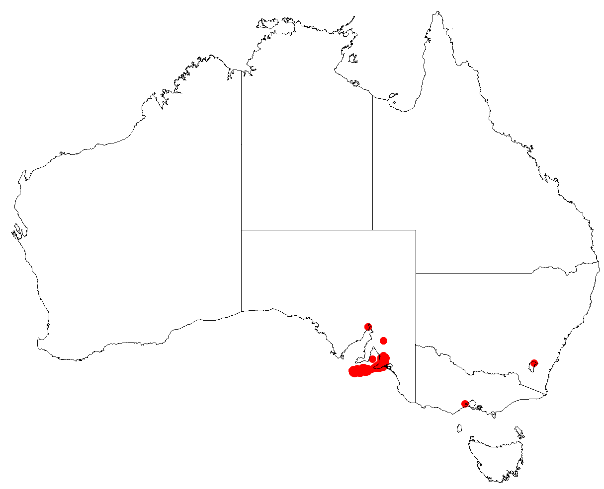 Eucalyptus cosmophylla Collections data from AVH